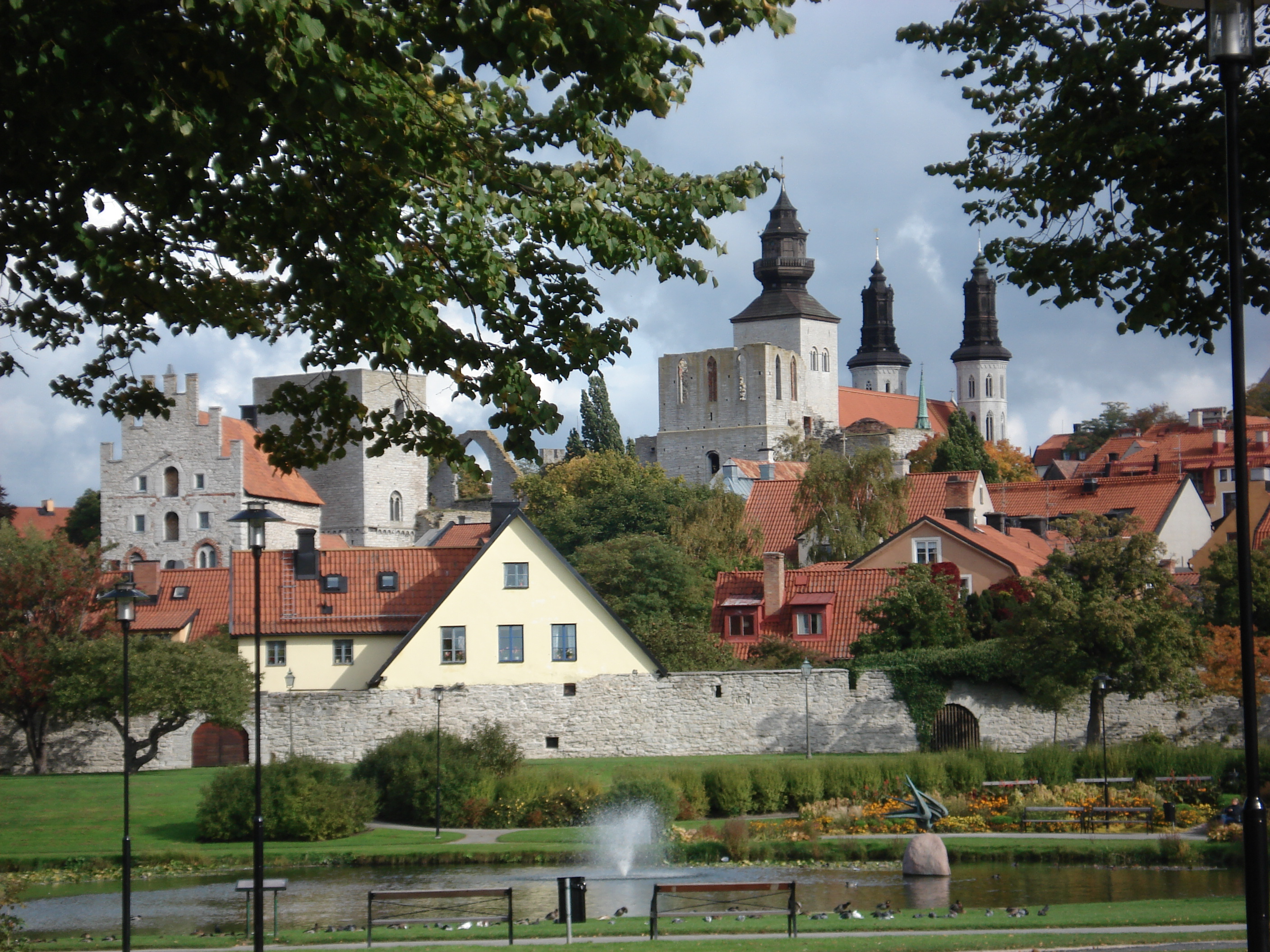 Visby with Almedalen park in the foreground